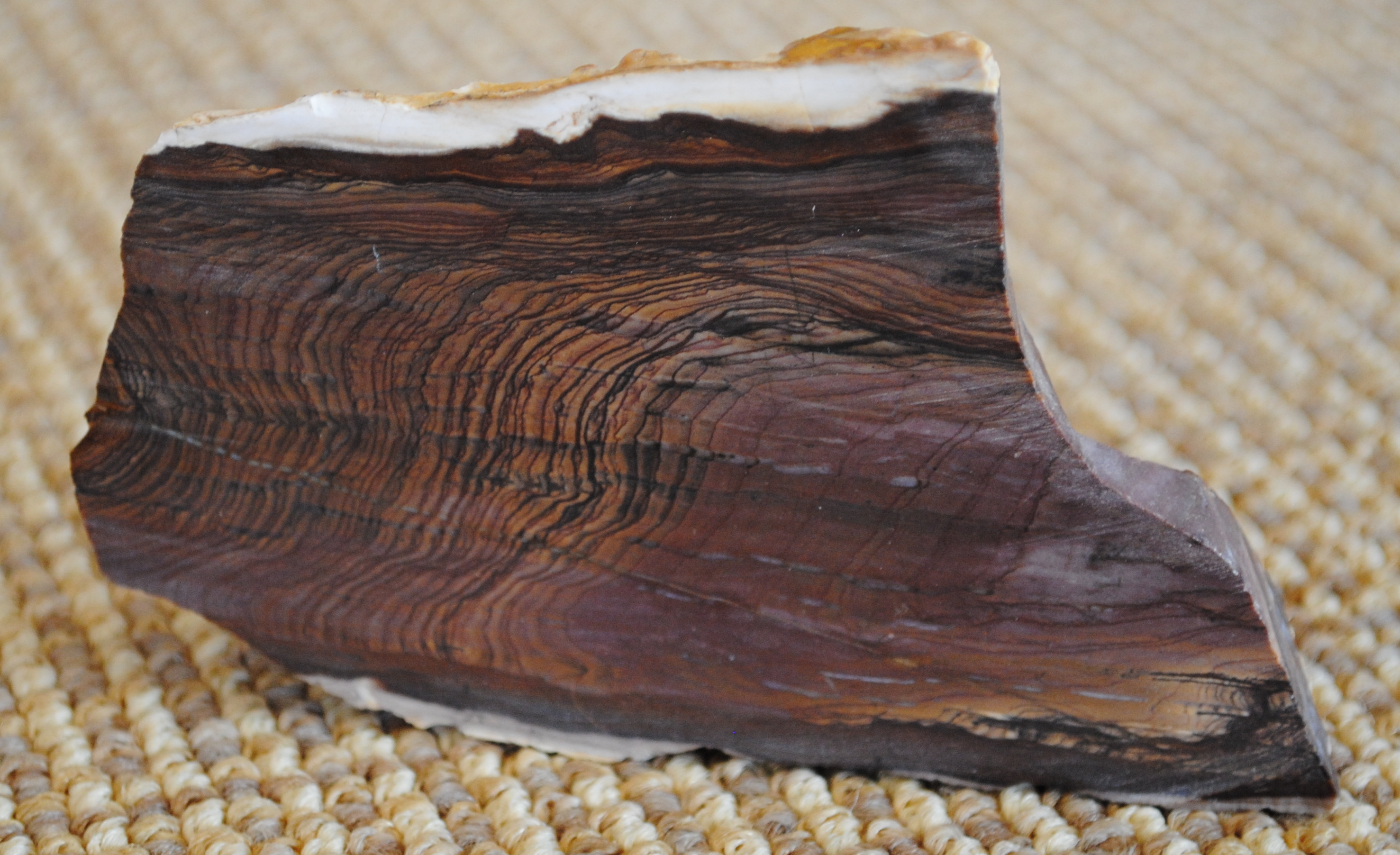 A piece of Biggs jasper lying on a carpet.